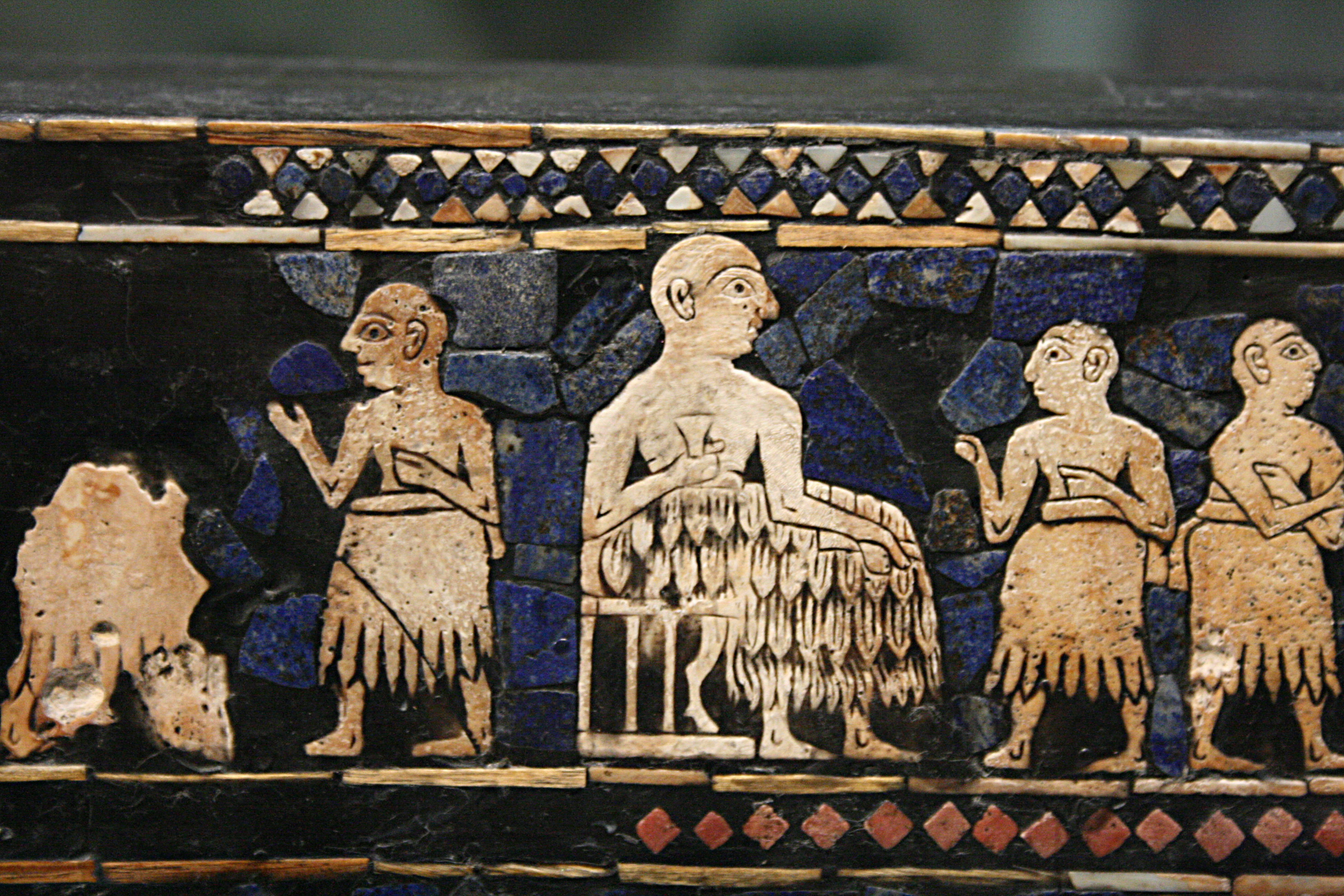 Standard of Ur. Sumerian artwork, ca. 2600-2400 BC. From tomb 779 Ur. British Museum. Detail